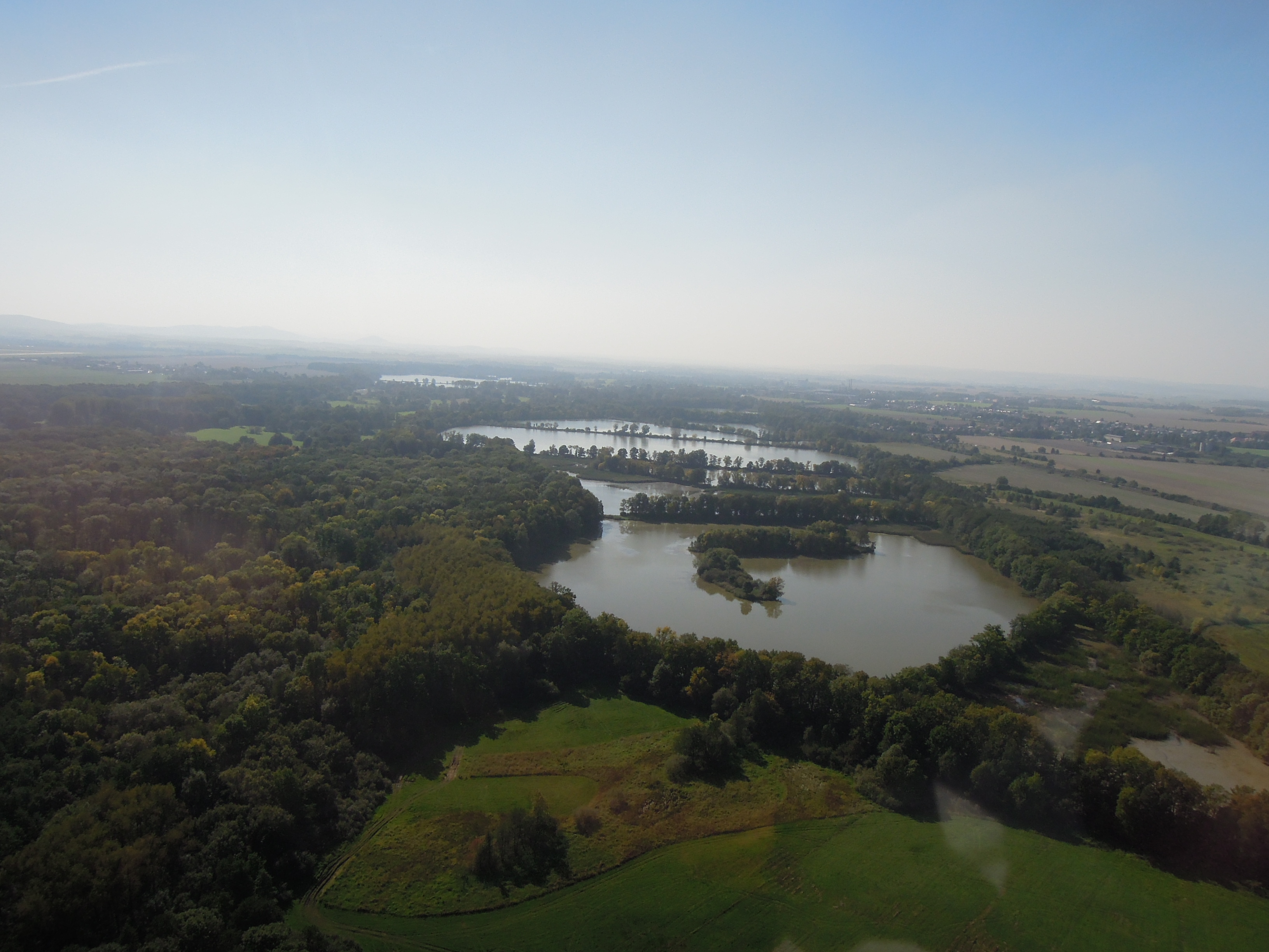 View of CHKO Poodří, Moravian–Silesian Region, Czech Republic; photo was taken from Robinson R44 helicopter